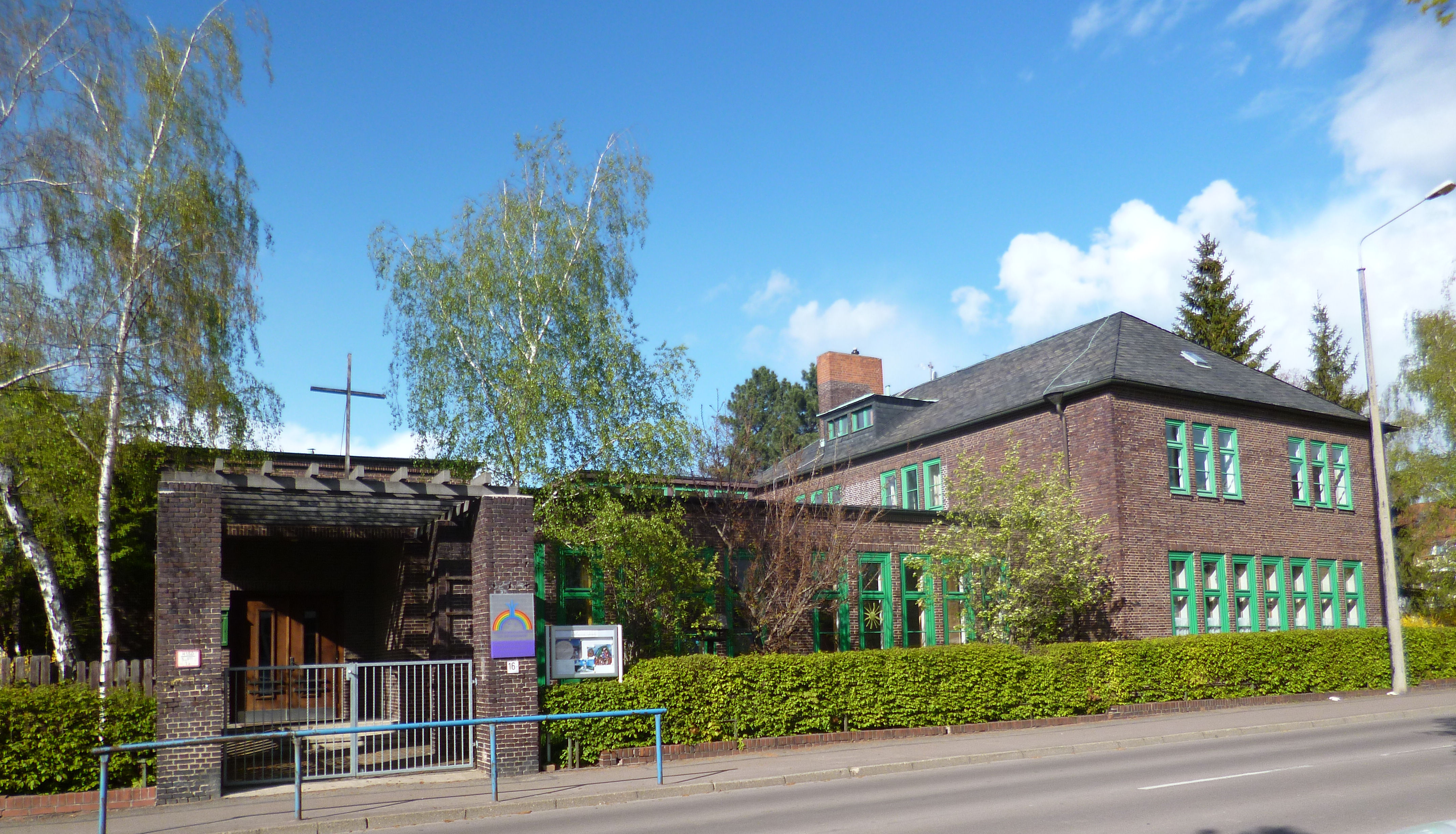 Church and meeting house Am Gesundbrunnen, built in 1932/1933, architect: Bruno Föhre, Diesterwegstraße 16, Halle (Saale)